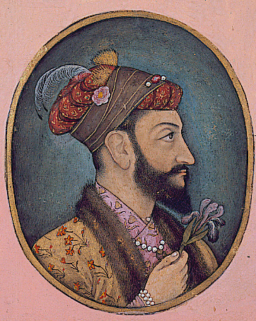 Creation Date: ca. 1650 Display Dimensions: 3 17/32 in. x 3 1/8 in. (9 cm x 7.9 cm) Credit Line: Edwin Binney 3rd Collection Accession Number: 1990.358 Collection: The San Diego Museum of Art